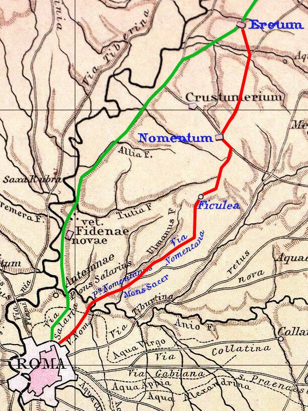 Ancient roman Nomentana way (red color). The path was form Rome to Eretum linking with the Salaria way (green color)